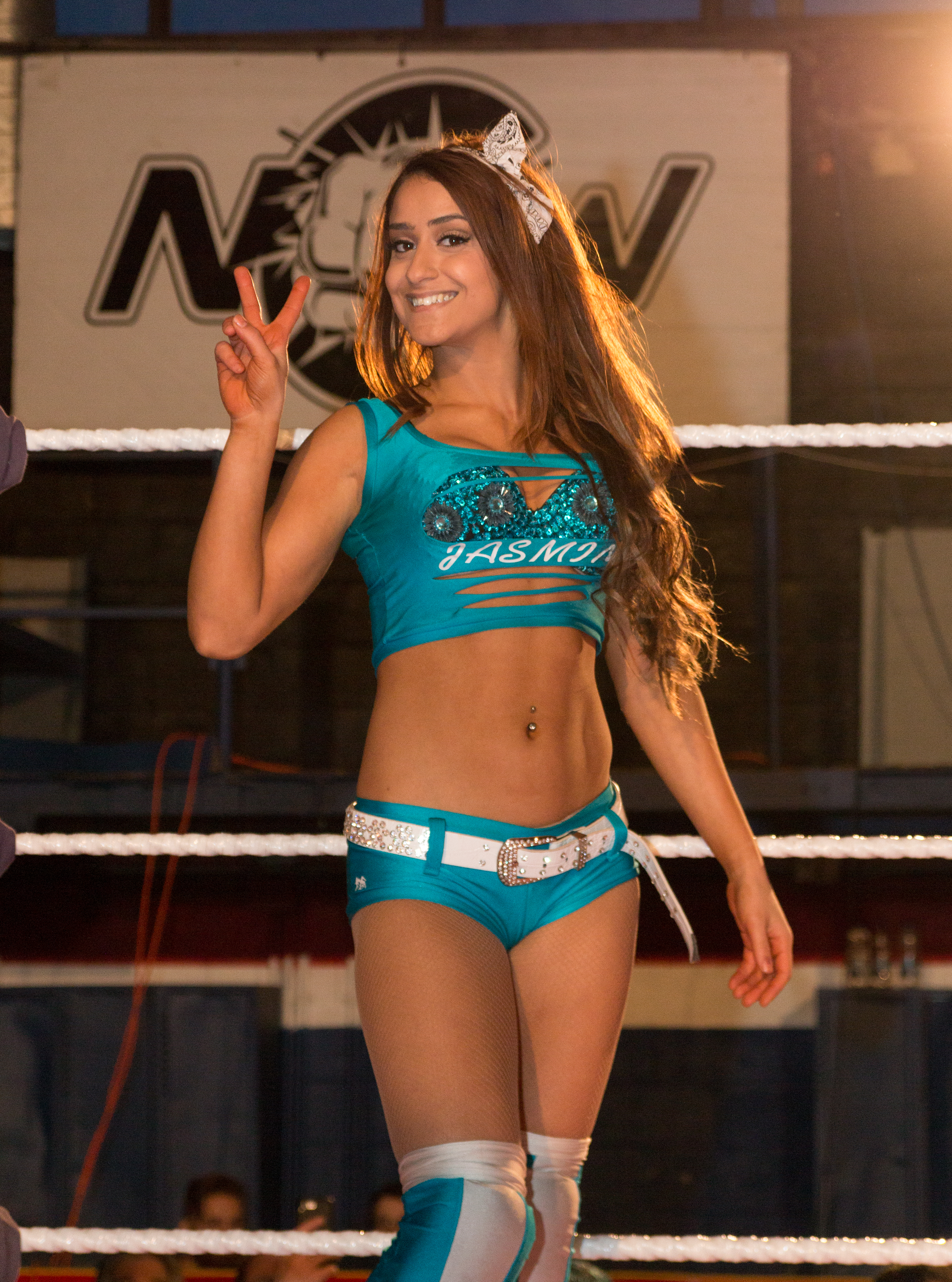 Jasmin Areebi in the ring at an NCW Femme Fatales show in Montreal, QC